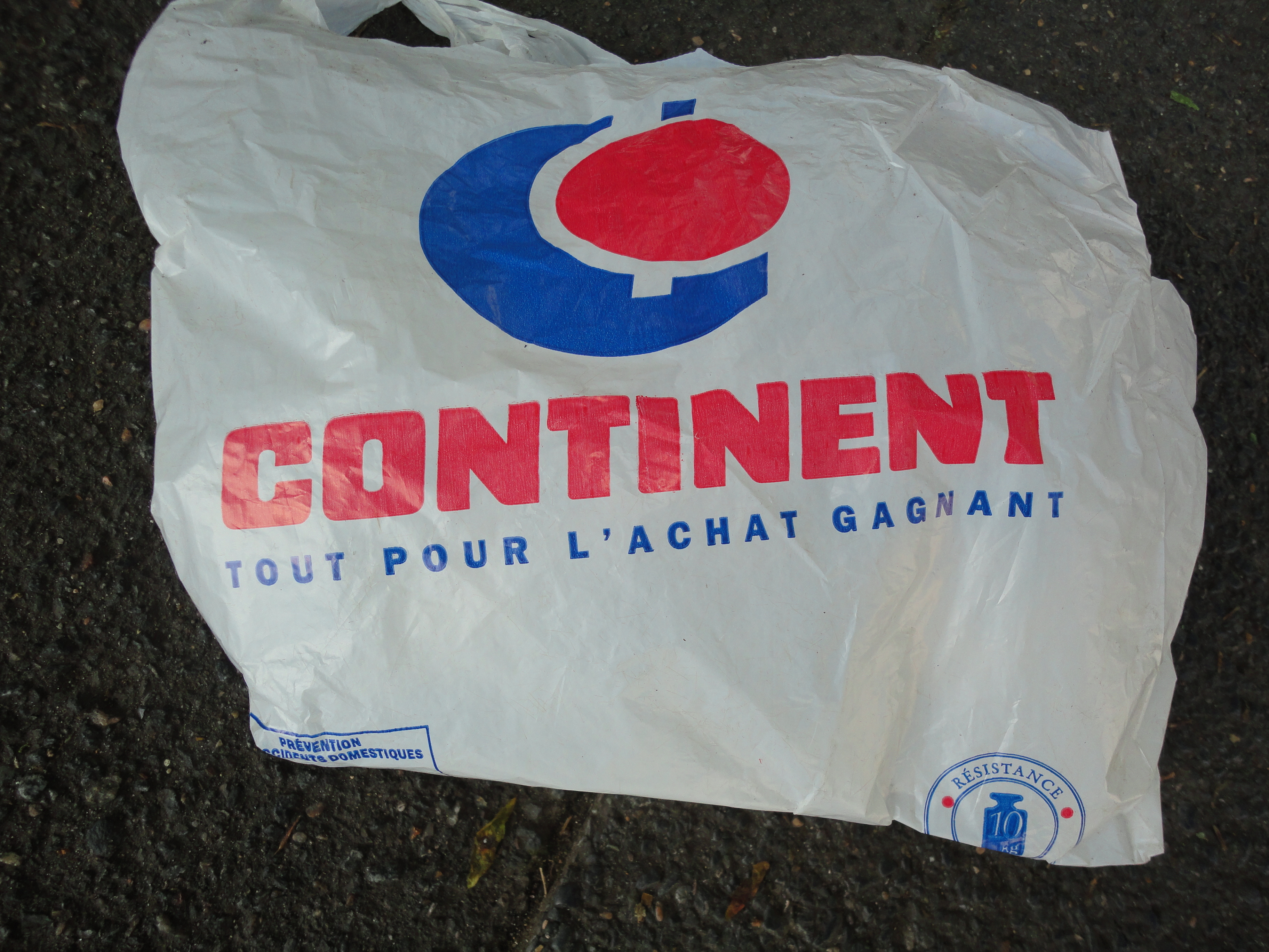 Zoom on slogan of a plastic bag of Continent found at Torcy in July 2012 (Continent disapeared in 1999)